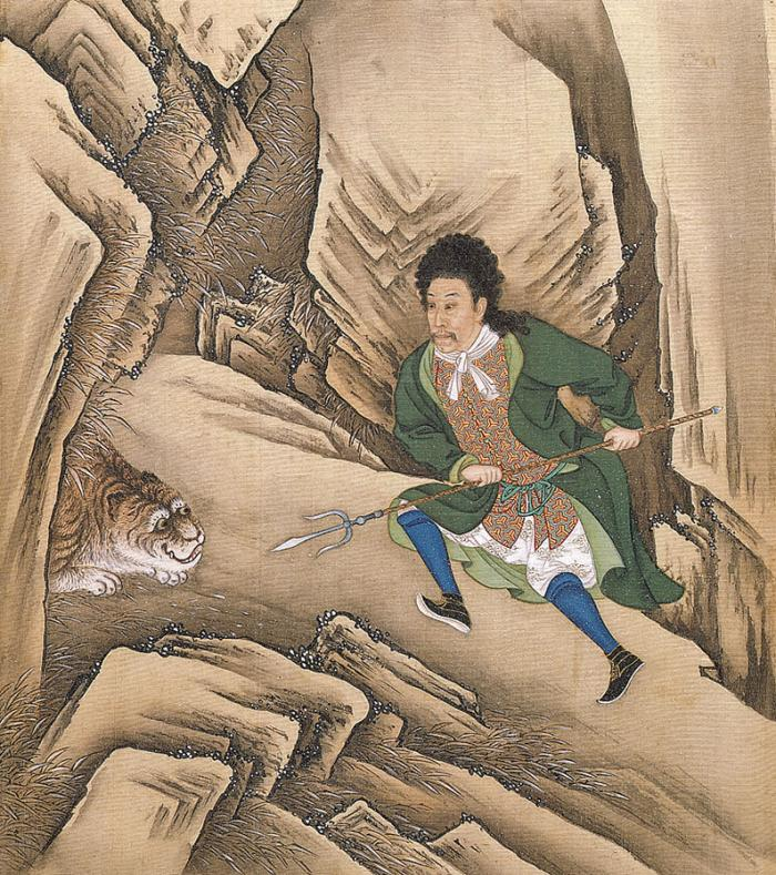 From Album of the Yongzheng Emperor in Costumes, by anonymous court artists, Yongzheng period (1723—35). One of 14 album leaves, colour on silk. The Palace Museum, Beijing.